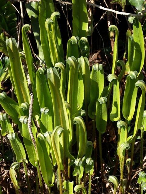 Hartstongue, Higher Ramshill Lane Phyllitis scolopendrium unfurls its undivided fronds in a sheltered spot on a warm spring afternoon.